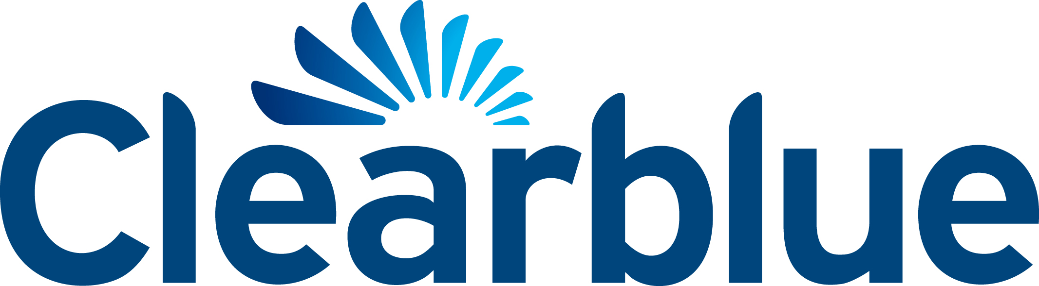 Clearblue logo